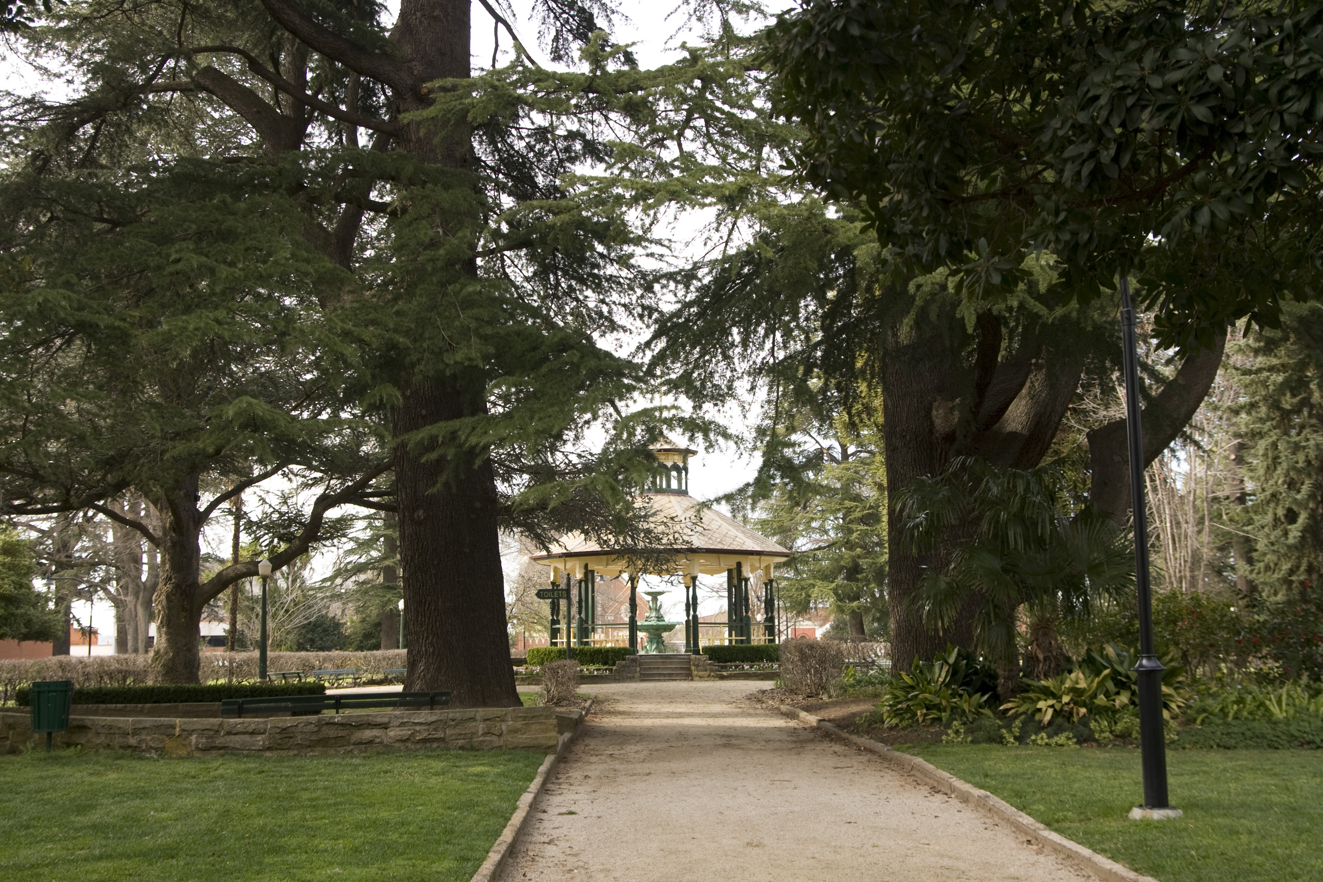 Bathurst, NSW